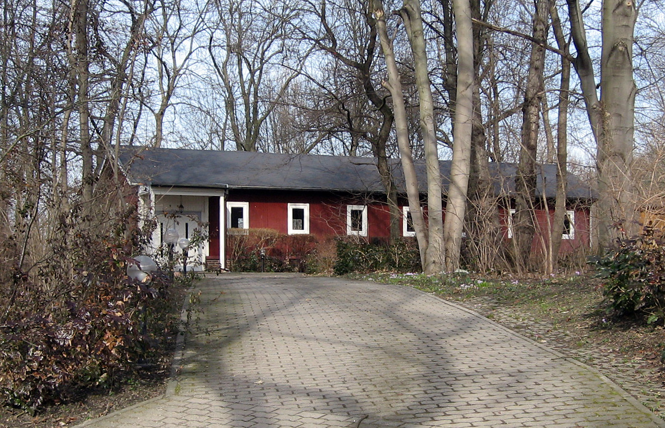 Church of the Holy Trinity of the Independent Evangelical-Lutheran Church in Leipzig, Kleiststrasse 56